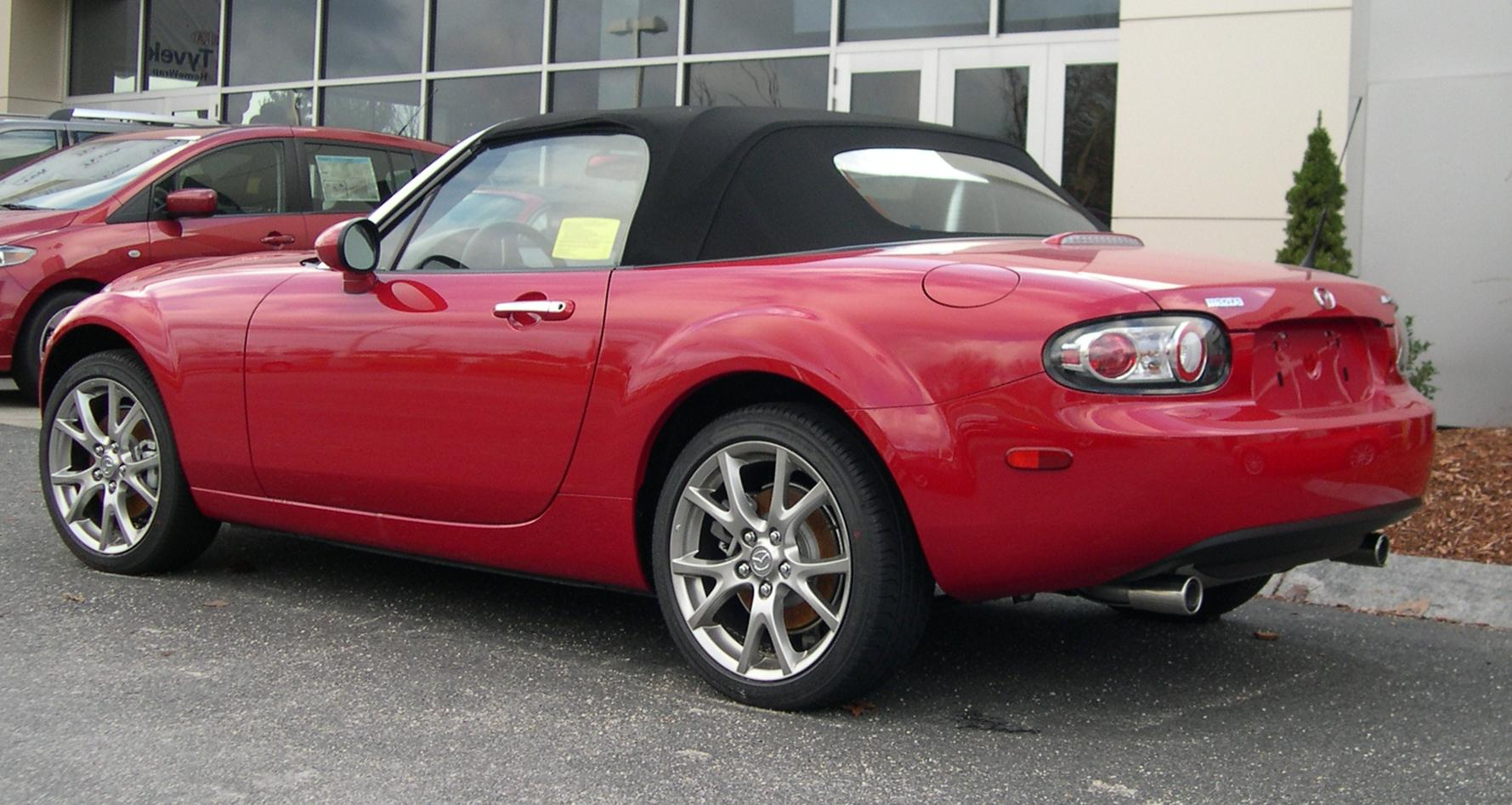 2006 NC Mazda MX-5 "3rd Generation Limited", one of 750 US-spec special edition models